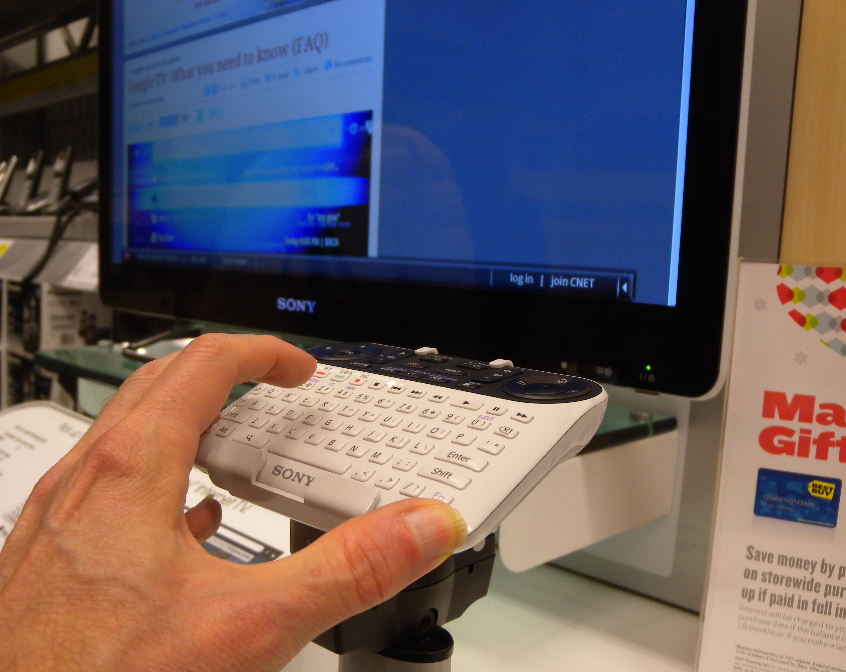 Keyboard of Sony Internet TV with hand for scale.